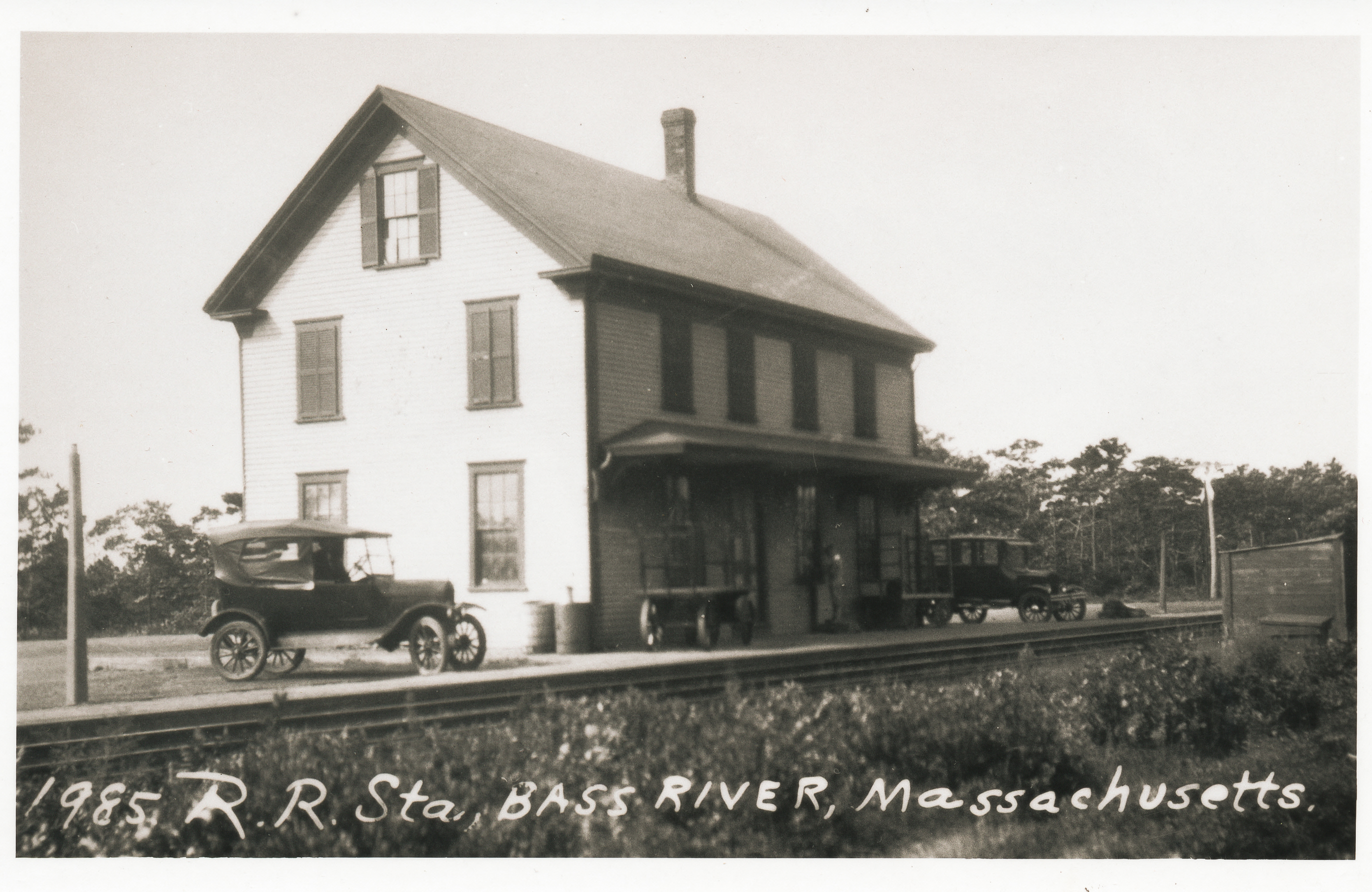 An early postcard showing the former Bass River, Massachusetts train station on Cape Cod. A pencil inscription on the rear of the card reads New York, New Haven and Hartford Railroad, Boston Division, Cape Cod Line, ca. 1927.